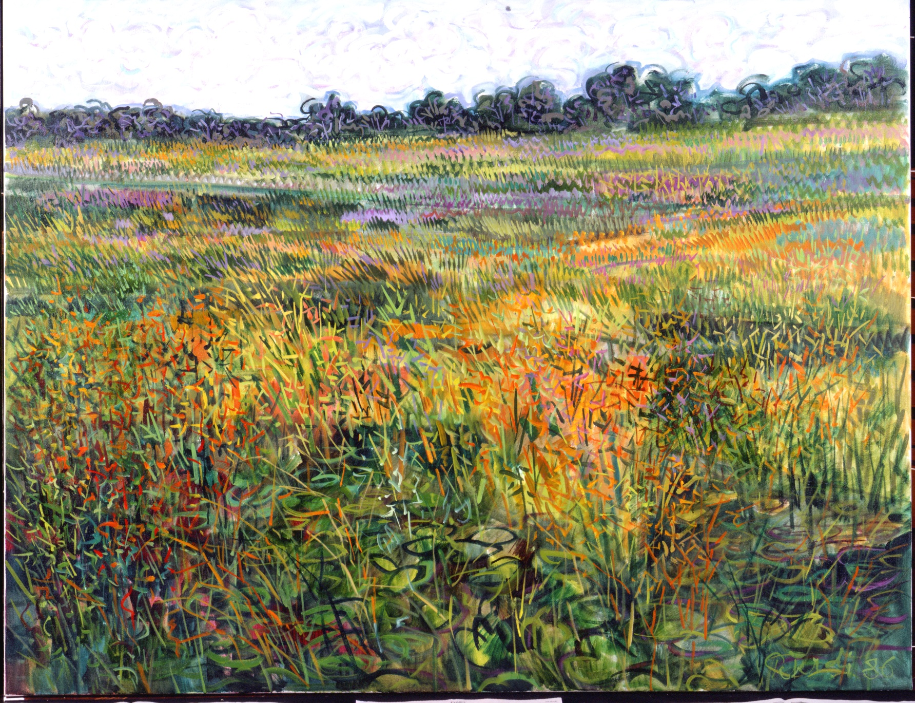 "Lavender Meadow", 1986, oil on canvas, 46 x 60 inches, by Gabor Peterdi